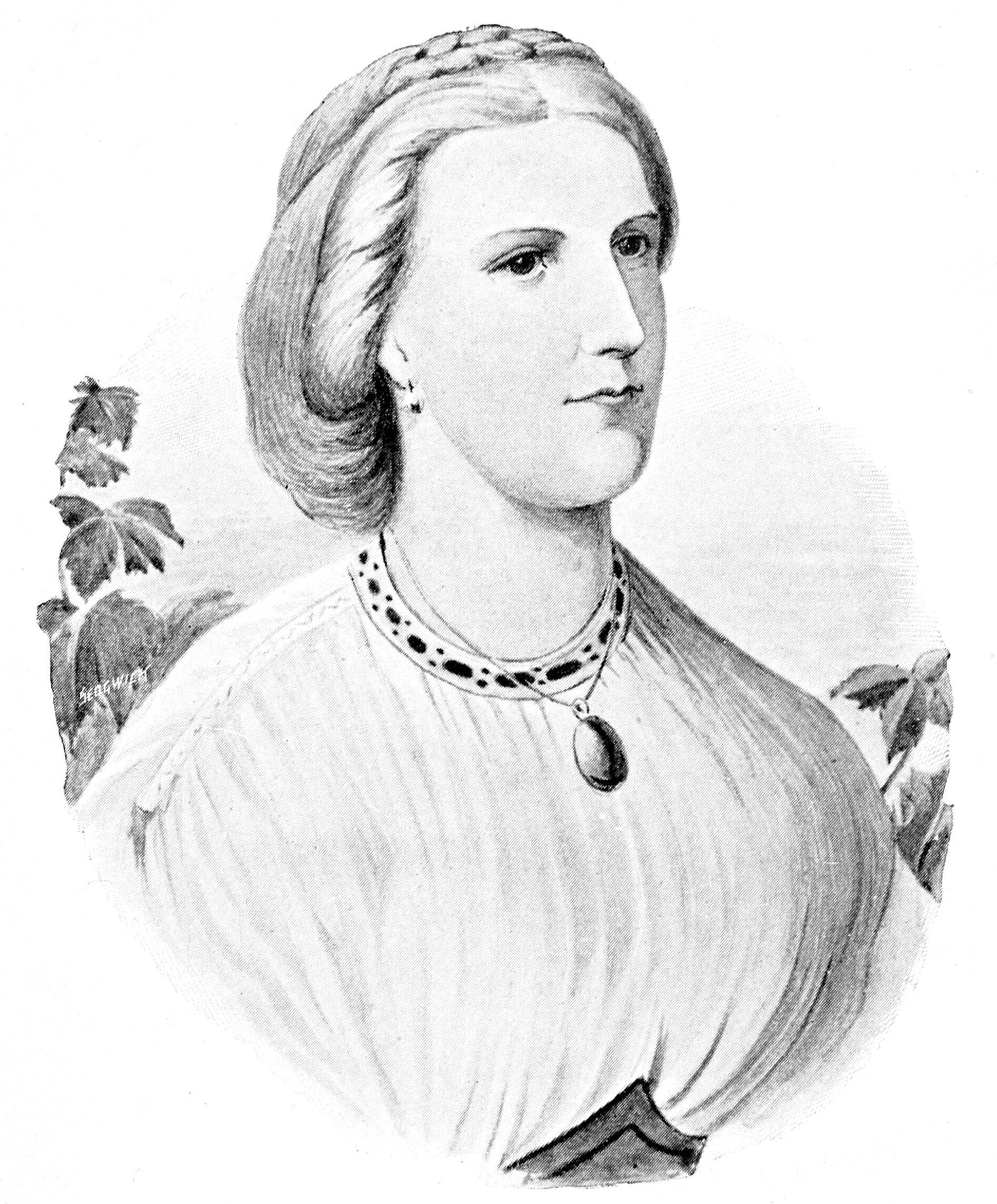 Photograph of Isabel Burton at the time of her marriage. From The Romance of Isabel